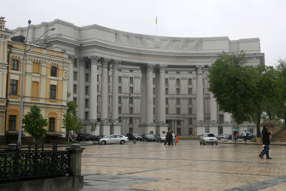 The Ministry of Foreign Affairs of Ukraine, Kiev